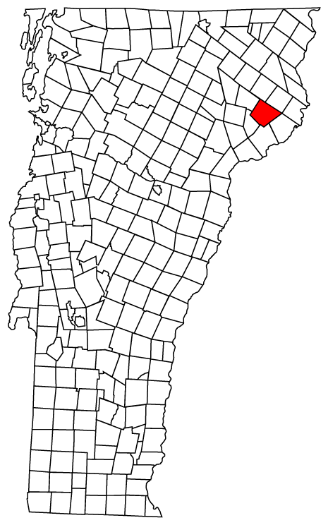 Map of Vermont towns with Victory highlighted